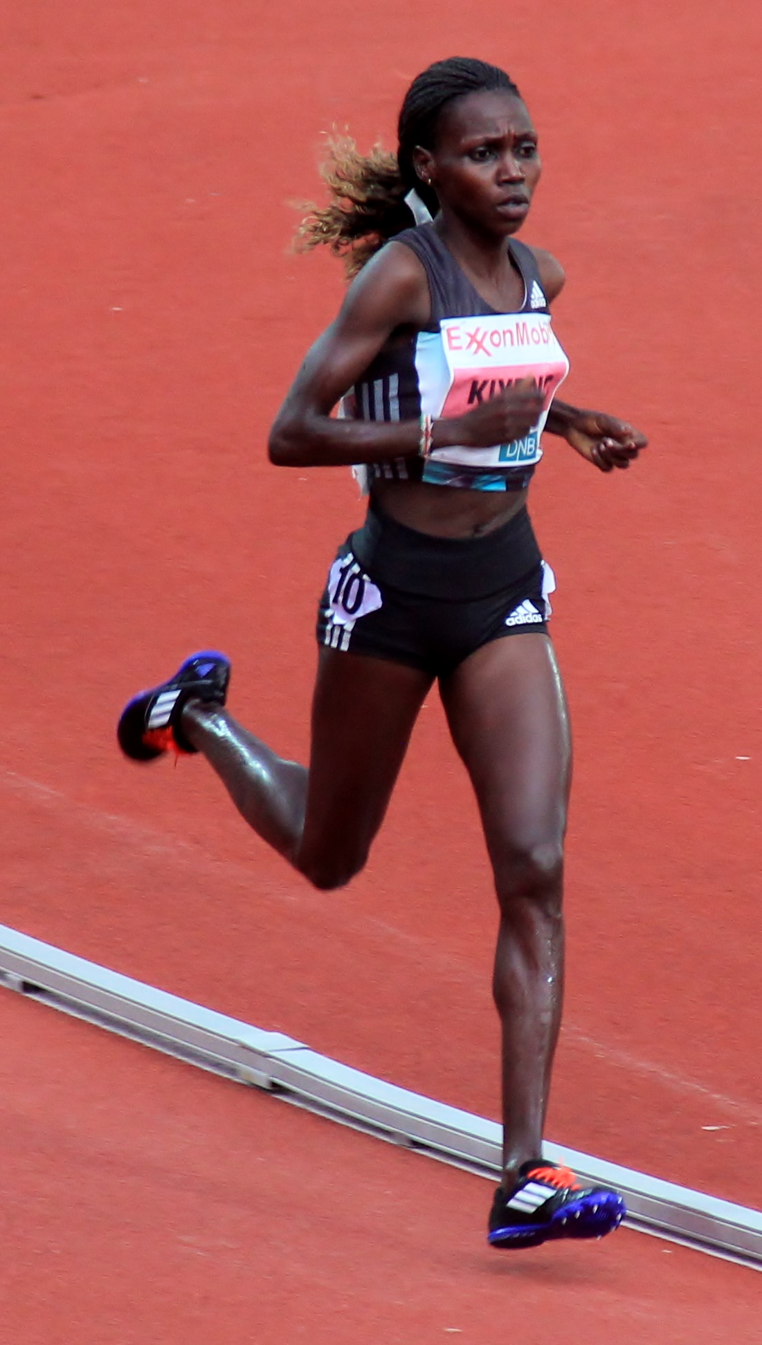 Hyvin Kiyeng at the 2016 Bislett Games